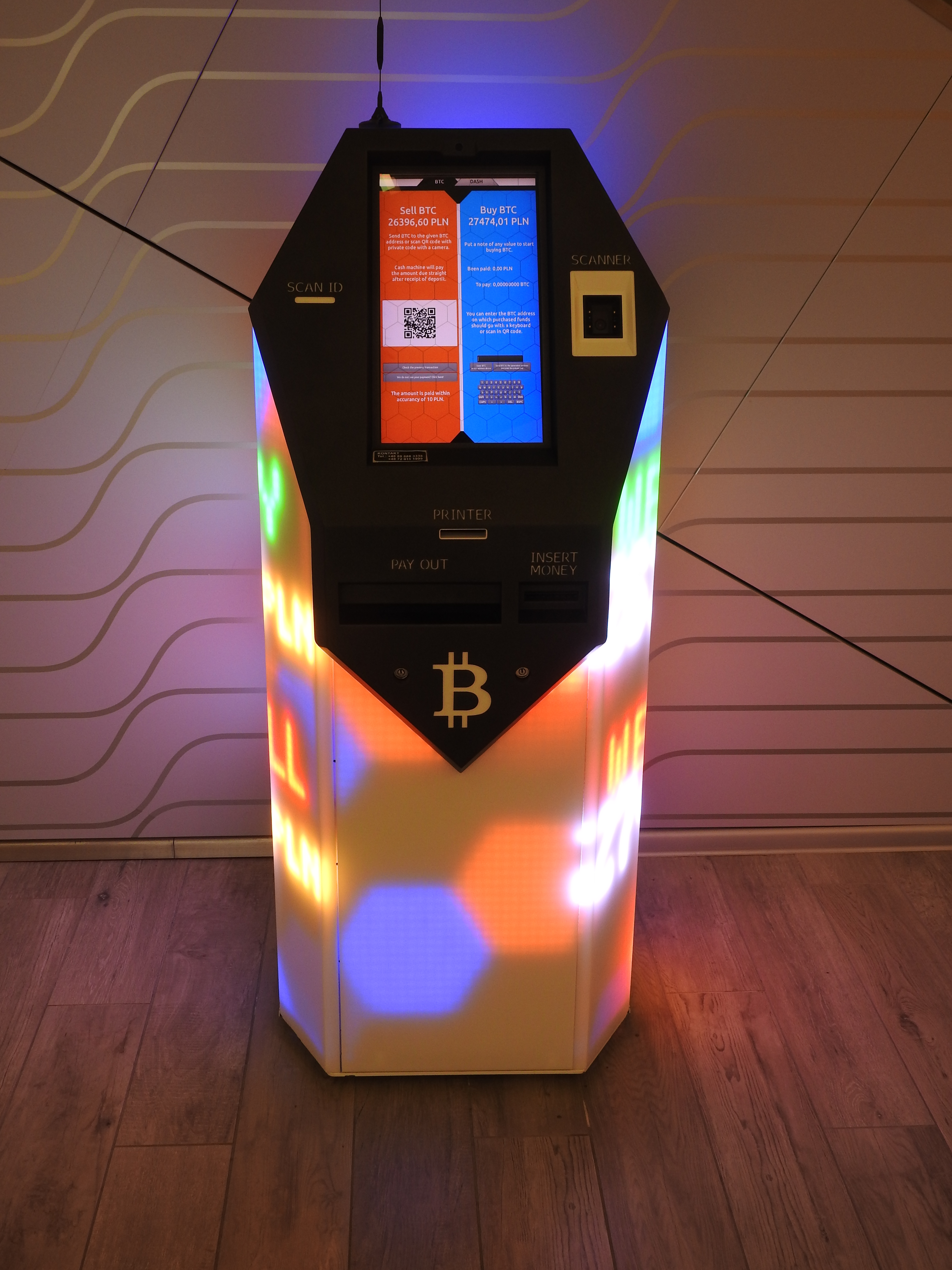 First Cryptocurrency ATM designed and built in Poland by Shitcoins.club. This is a two-way Bitcoin ATM, which means that both fiat to Bitcoin, and Bitcoin to fiat transactions can be done. It supports Bitcoin and other cryptocurrencies.